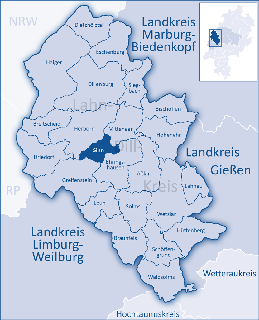 The map shows a district in the area of Lahn-Dill-Kreis